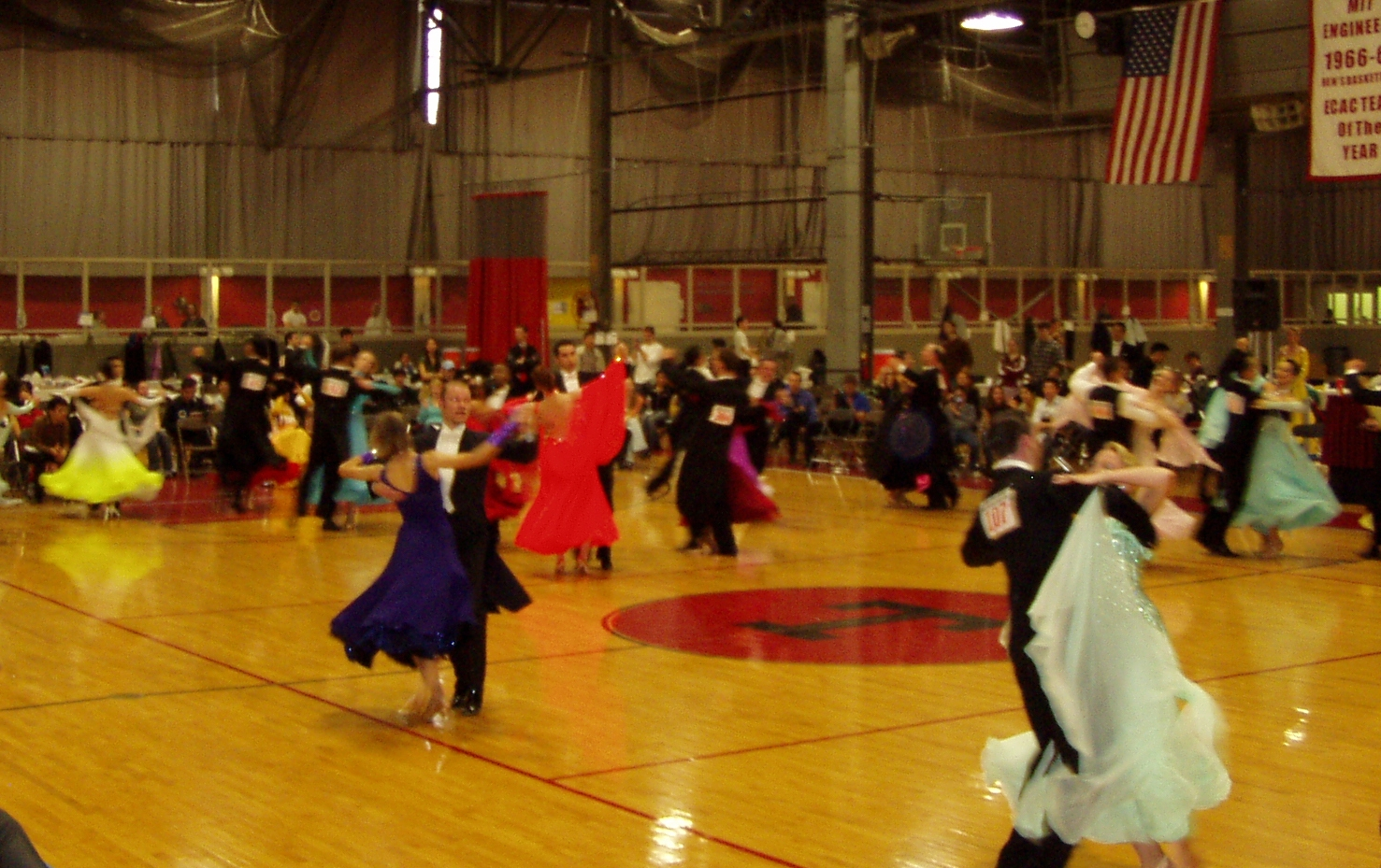 Standard dancing (prechampionship semi-final) at the 2006 MIT Open Ballroom Dance Competition